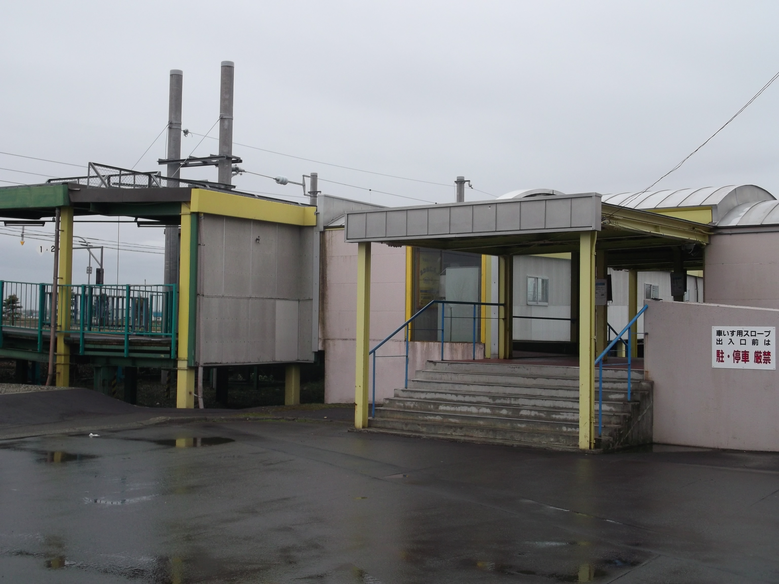 Hokkaido-Iryodaigaku Station entrance